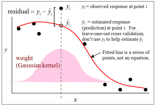 Diagram of curve fit to a small data set with nonparametric regression using a Gaussian kernel smoother.